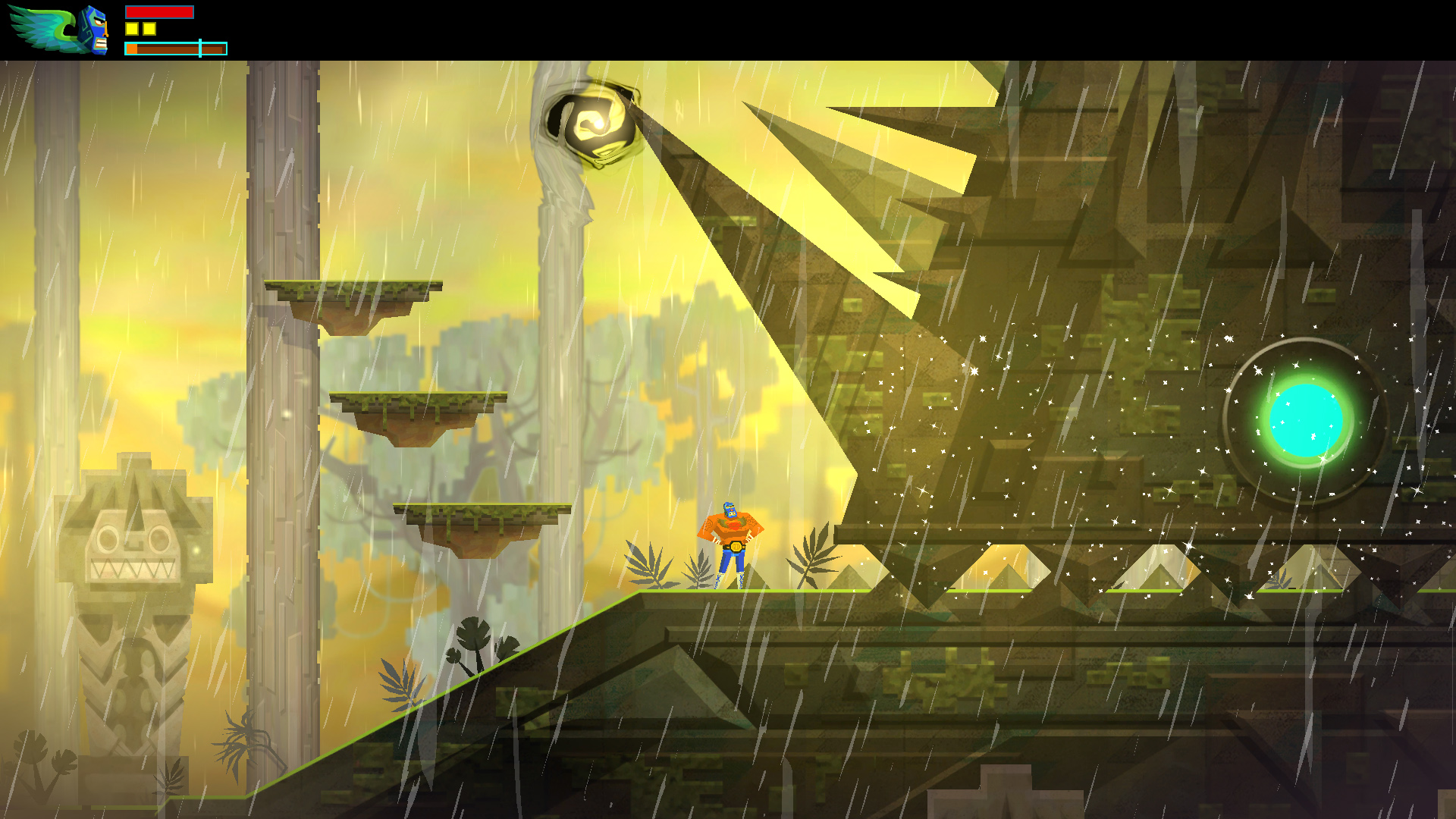 Screenshot from Guacamelee!